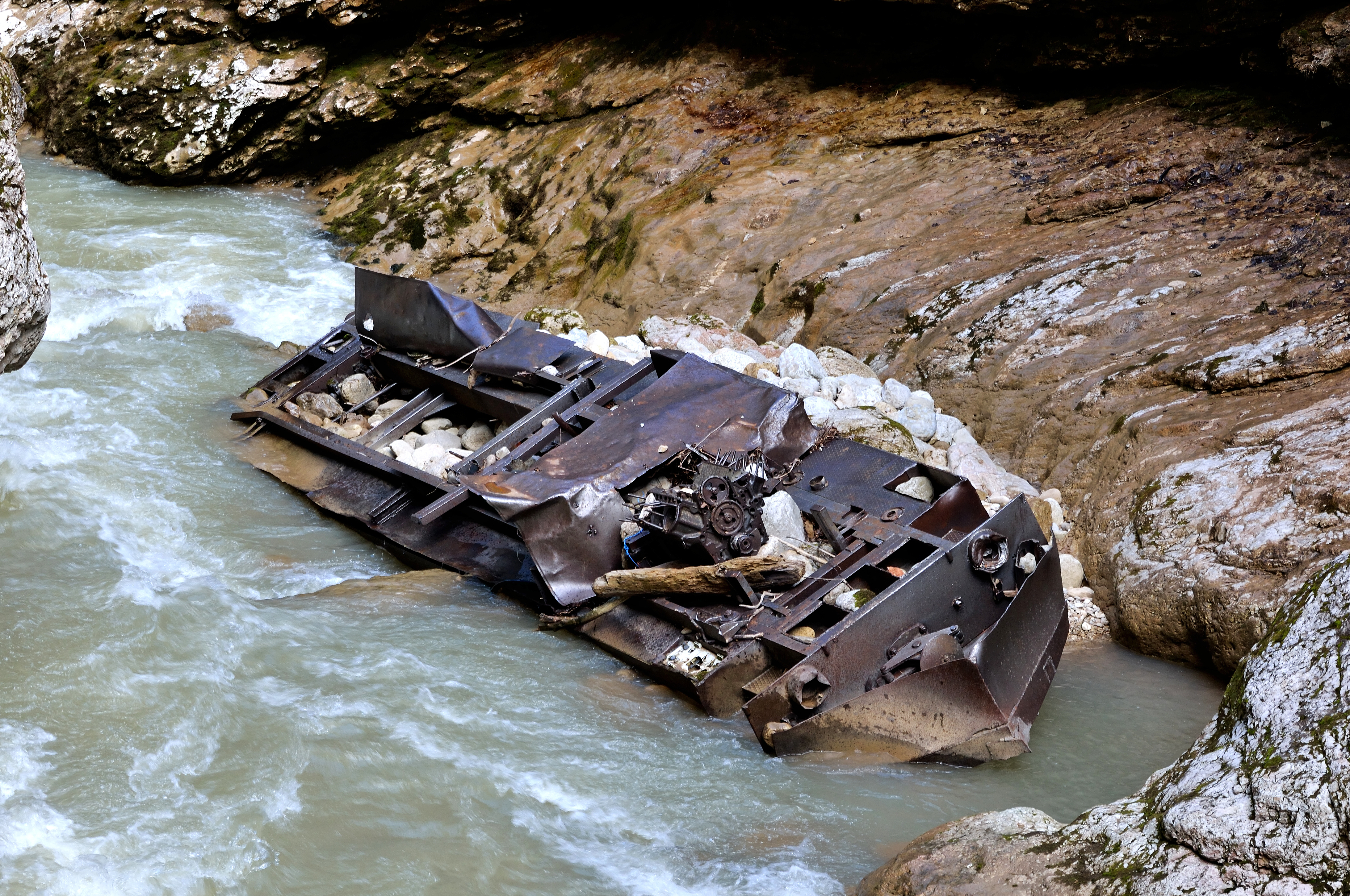 Narrow-gauge diesel locomotive ТУ8П-0006 in Kurdzhips river, Guamsky gorge, Apsheronsk narrow-gauge railway